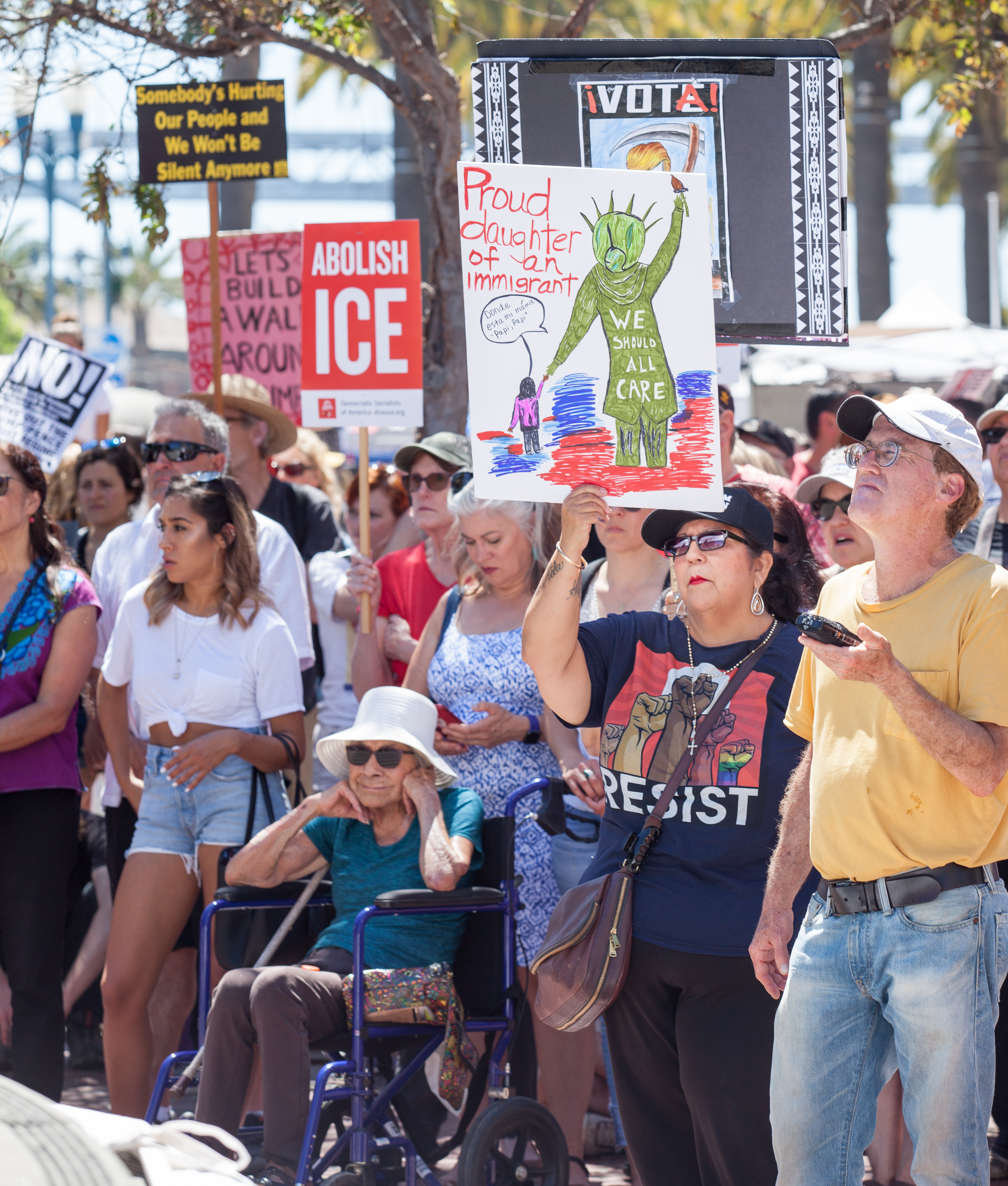 Attendees of a "Families Belong Together" rally in San Francisco hold various signs and banners.